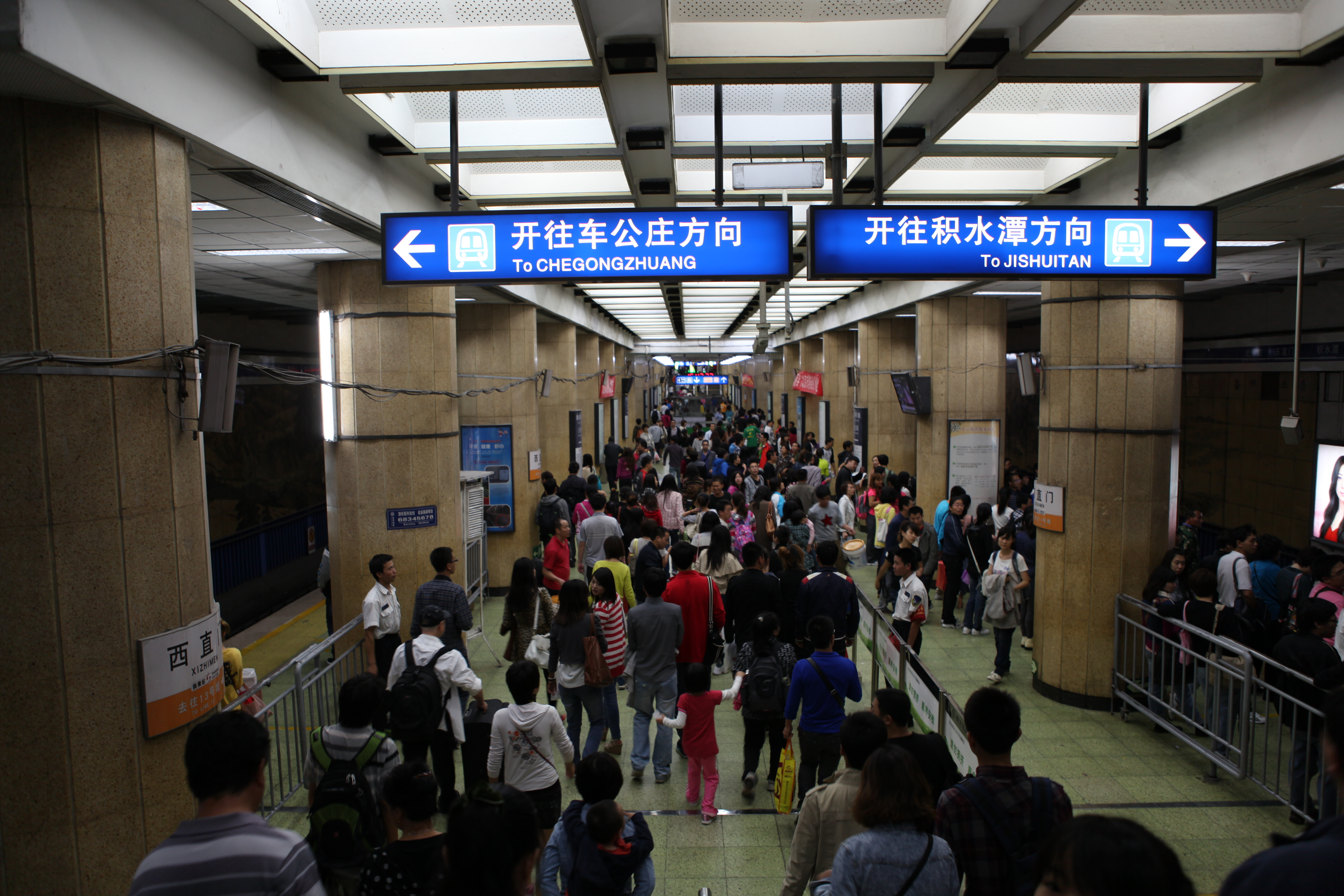 Beijing Subway Xizhimen Station